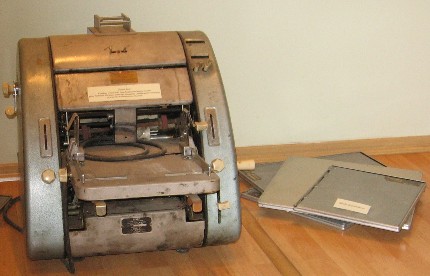 Duplicating machine. Formerly used by Polish "Solidarność" members, when they fought against martial law (since 1981) of communist state. Photo from the exhibition of 25th anniversary of "Solidarność". Right of the machine - printing matrixes for this duplicator.